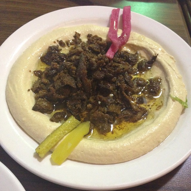 A photo of Jerusalem hummus, an Israeli style hummus topped with warm spiced ground beef or lamb.